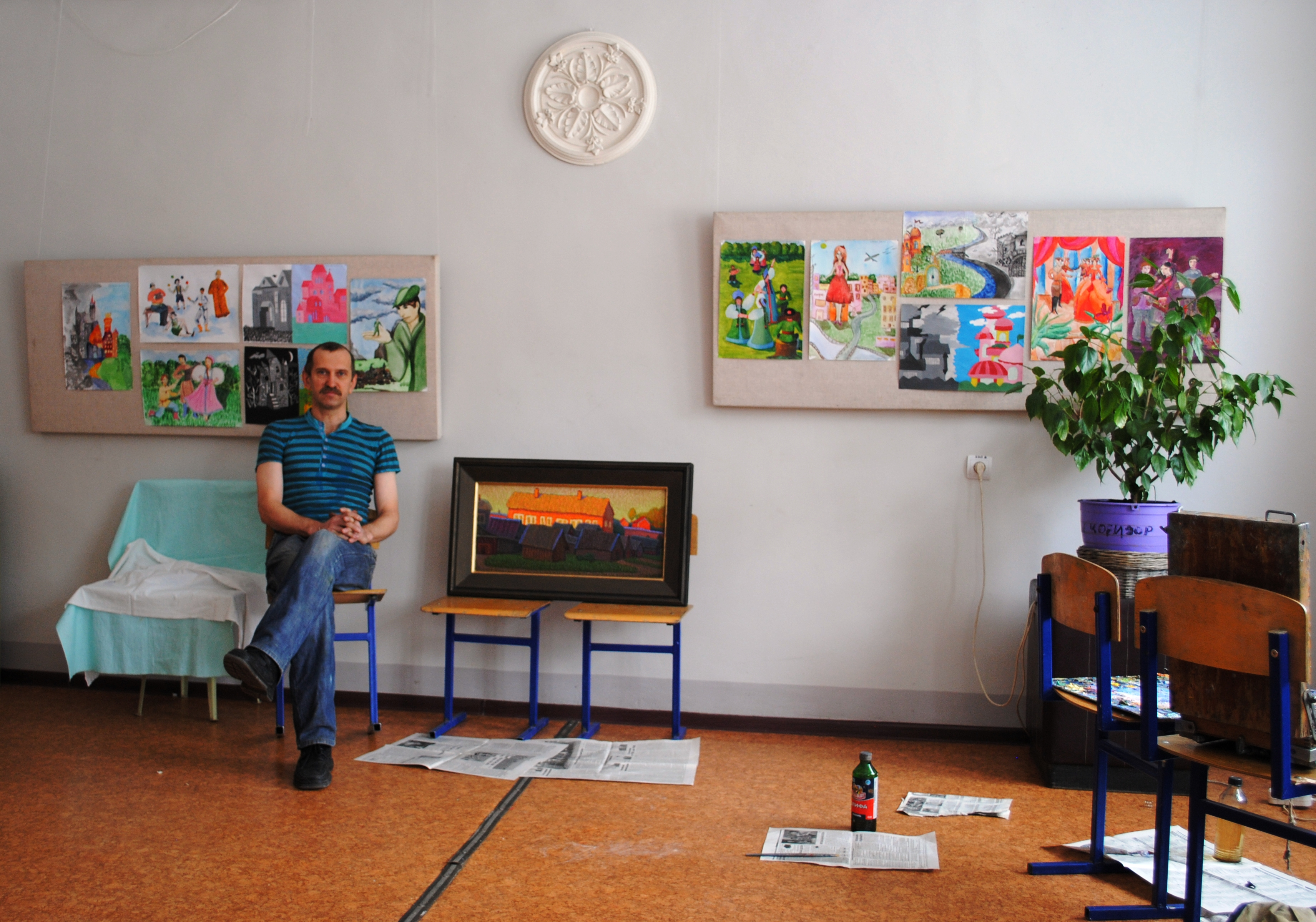 Livny's children's art school